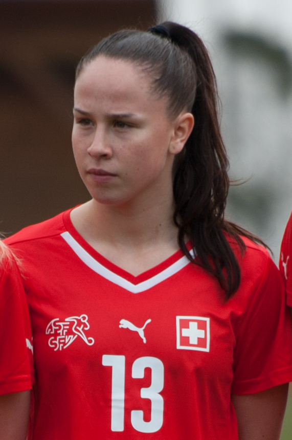 UEFA European Women's U17 Championship elite round Germany vs. Switzerland, 2016-03-19